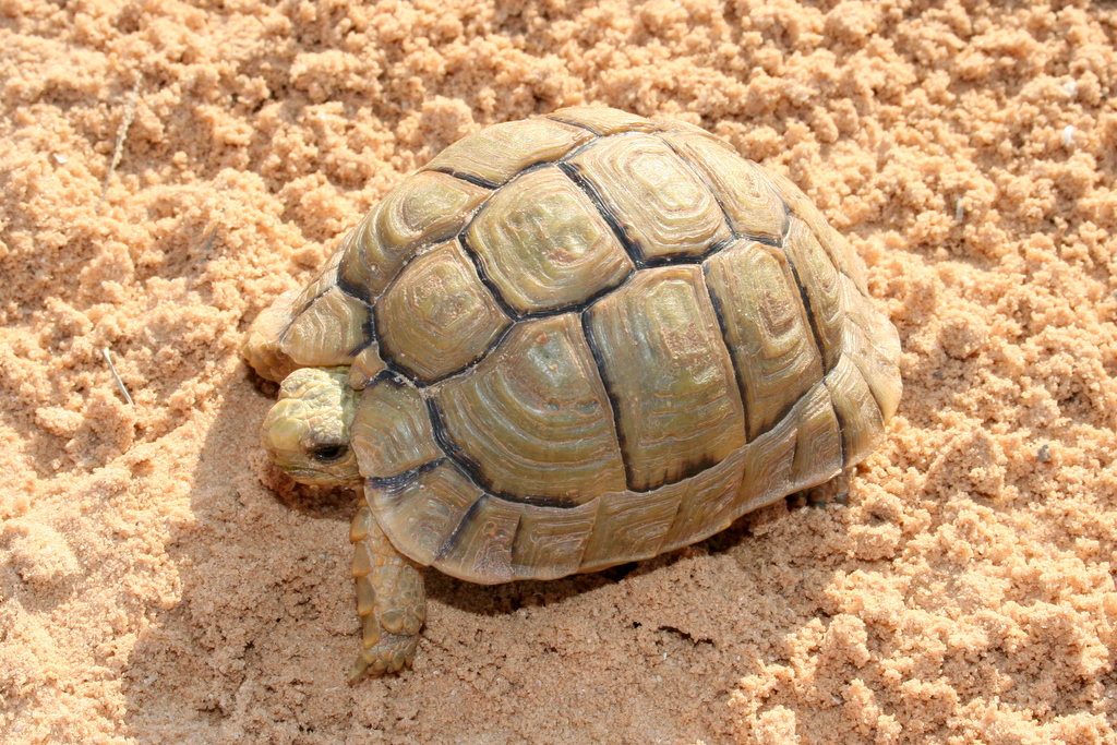 Testudo kleinmanni werneri - Tortle found in the Negev desert in Israel December 2006